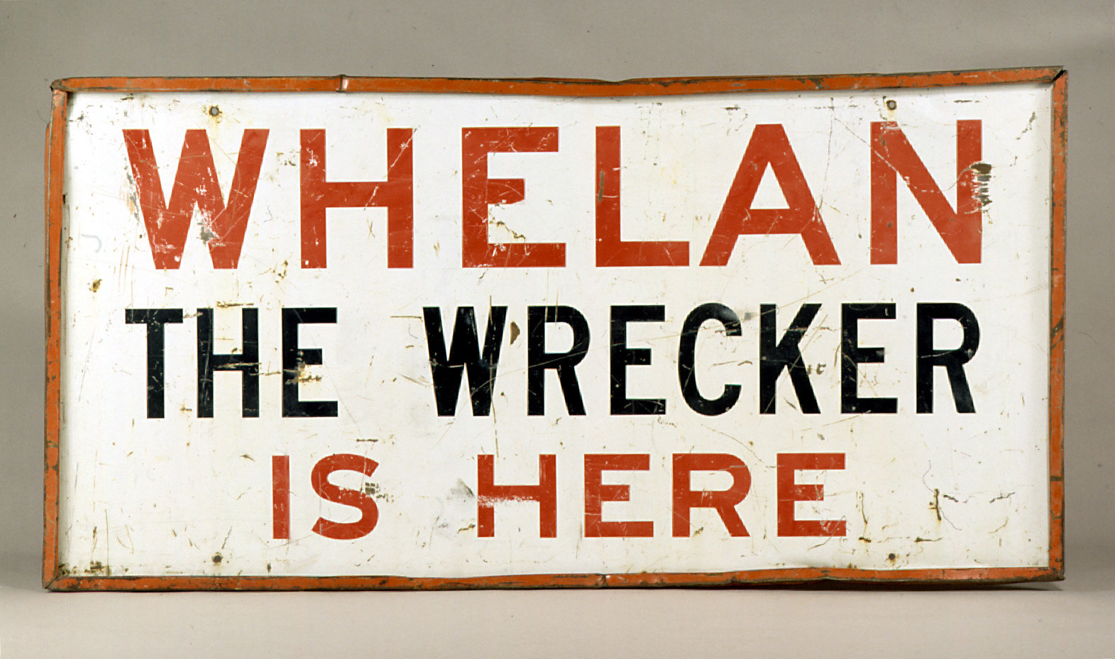 'Whelan The Wrecker Is Here' sign, now in collection of Musuems Victoria